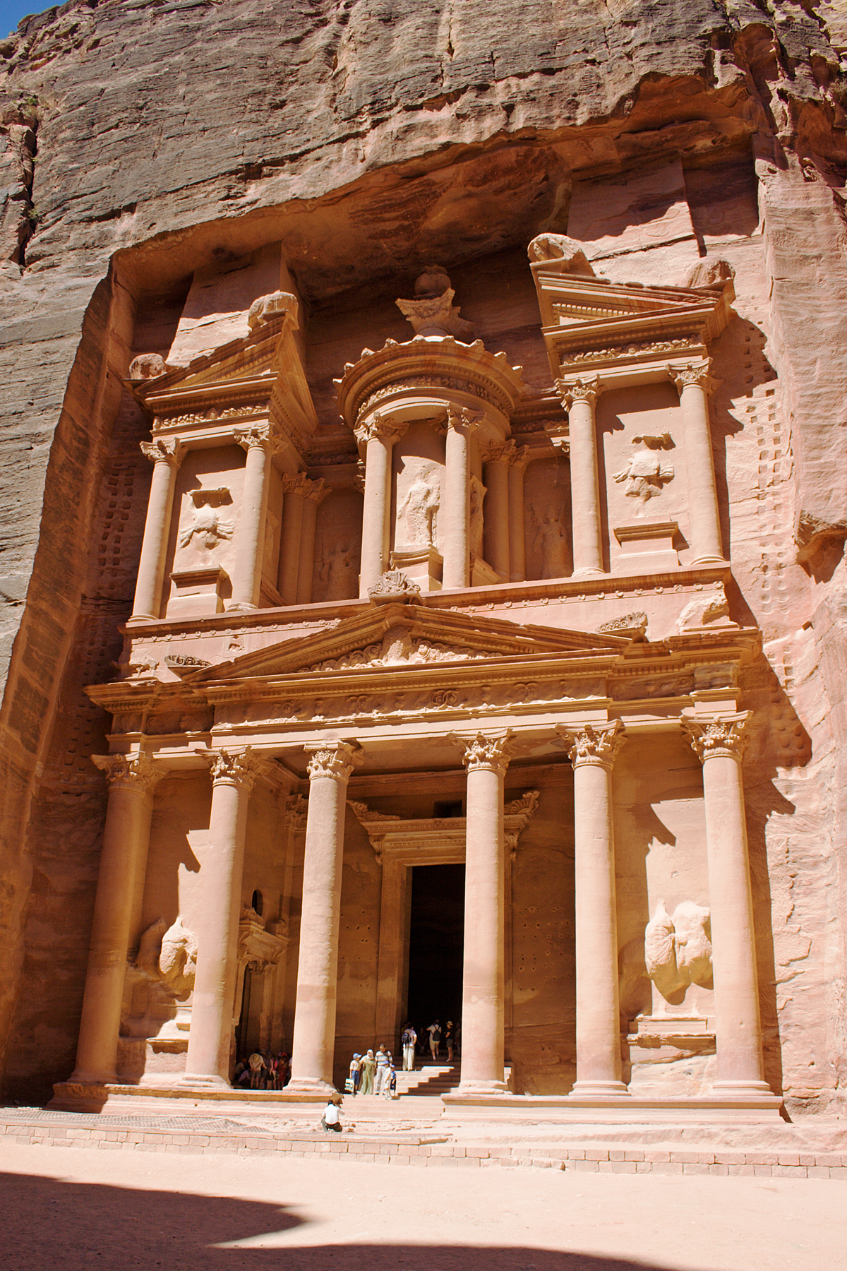 Petra's Treasury (al-Khazneh) in southern Jordan.